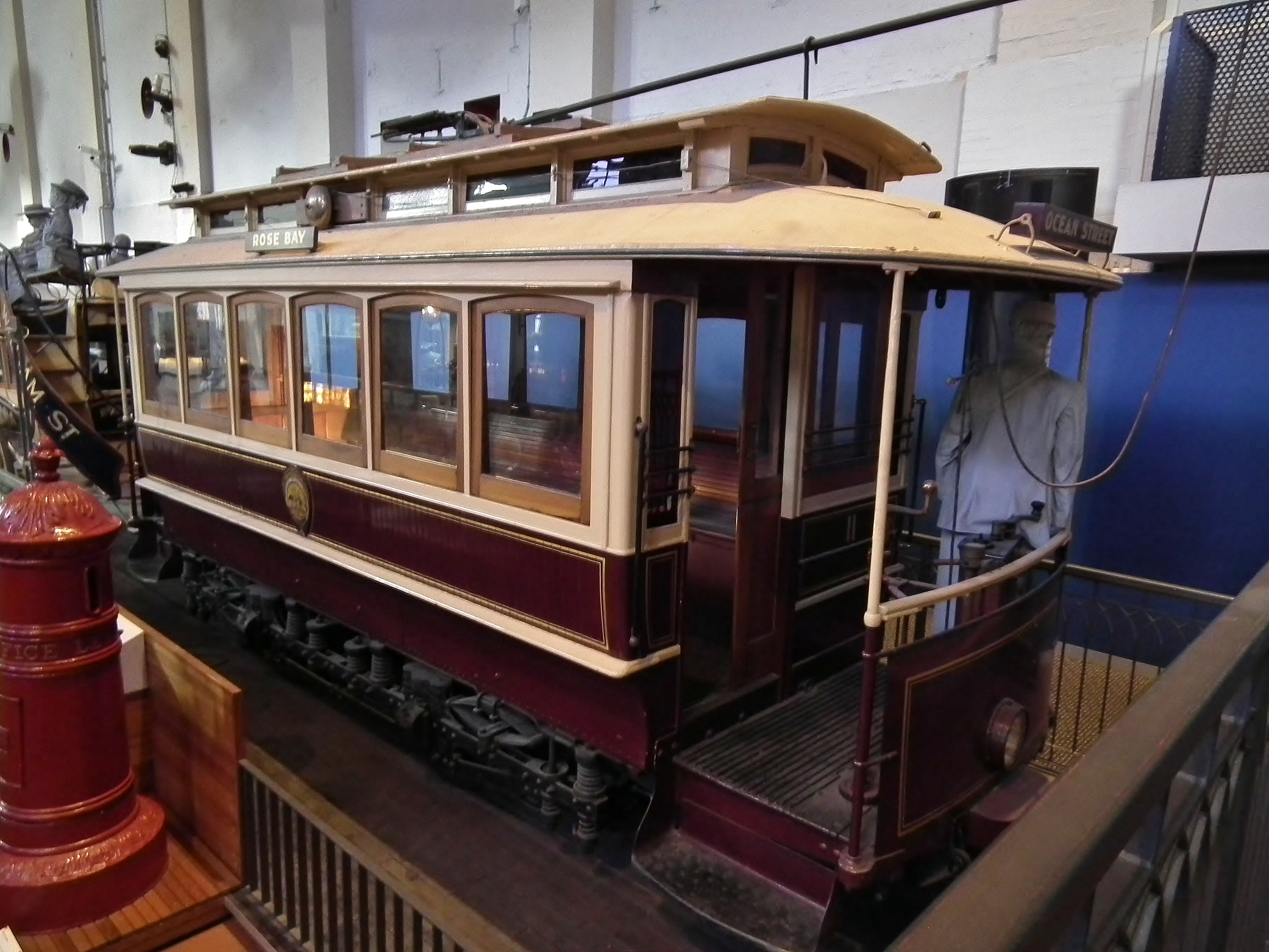 1898 Sydney C-Class Electric Tram. Part of Sydney's Powerhouse Museum collection.